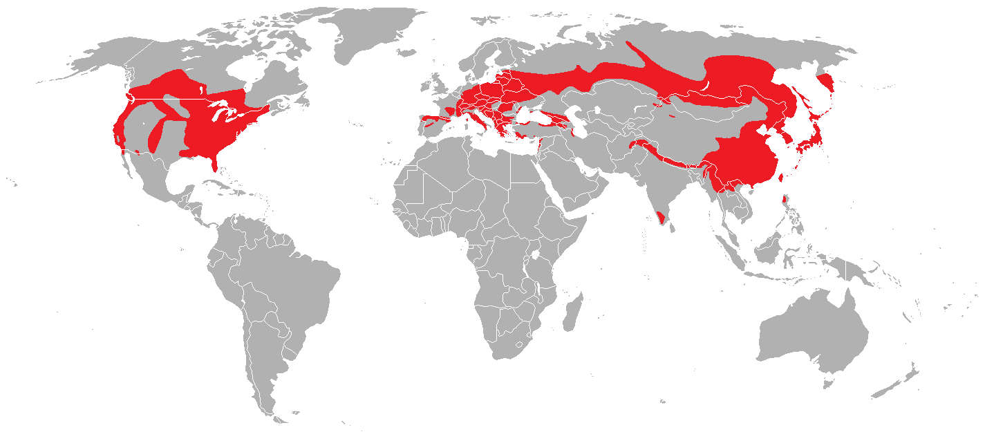 Map of the natural distribution of the genus Lilium (Liliaceae)